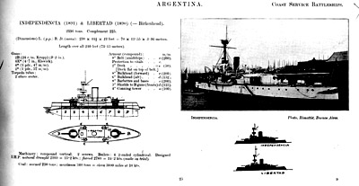 ARA Independencia